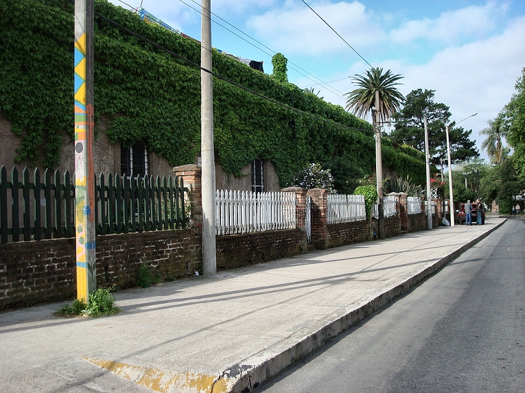 Historic residences of the worker of the railroad company in Peñarol, Montevideo, Uruguay.